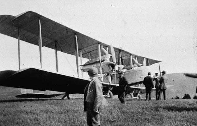 Vickers Vimy aircraft of Captain John Alcock and Lieut. A.W. Brown ready for trans-Atlantic flight, Lester's Field, 14 June 1919, St. John's, Nfld.